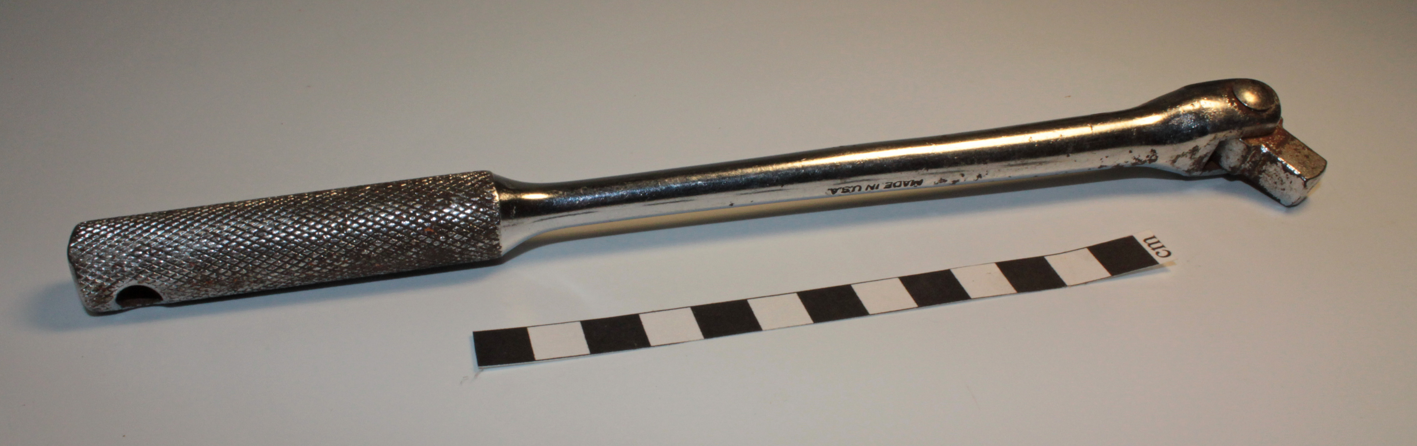 A breaker bar used to exert large amounts of torque on a nut. A normal ratcheting socket wrench performs the same task, however the ratcheting mechanism can be damaged by high loads.